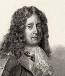 ArtistUnknownTitle